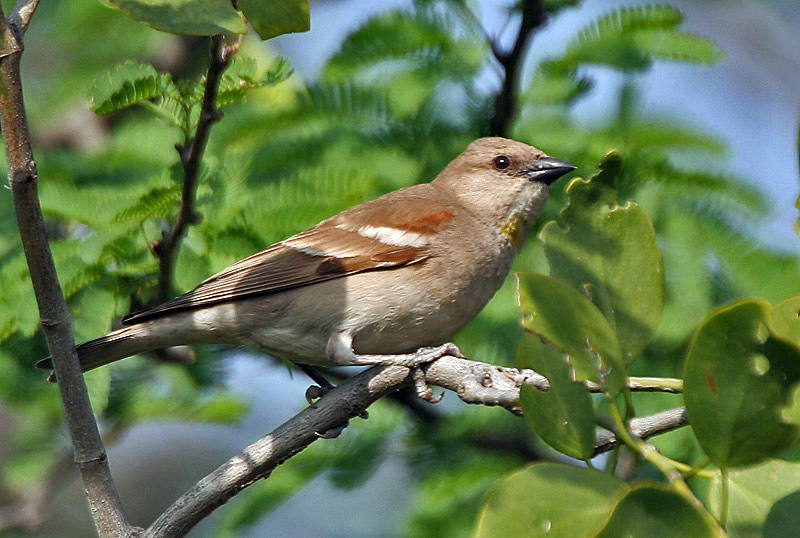 Yellow-throated Sparrow (also known as a Chestnut-shouldered Petronia) (Petronia xanthocollis) at Keoladeo National Park, Rajasthan, India.